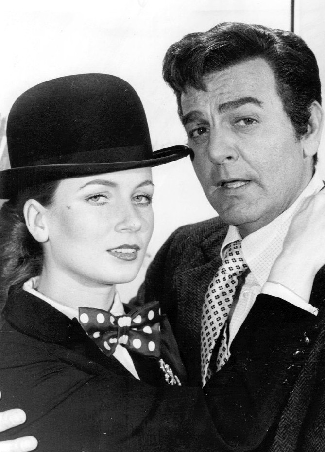 Photo of Genevieve Gilles and Mike Connors from the television series Mannix.